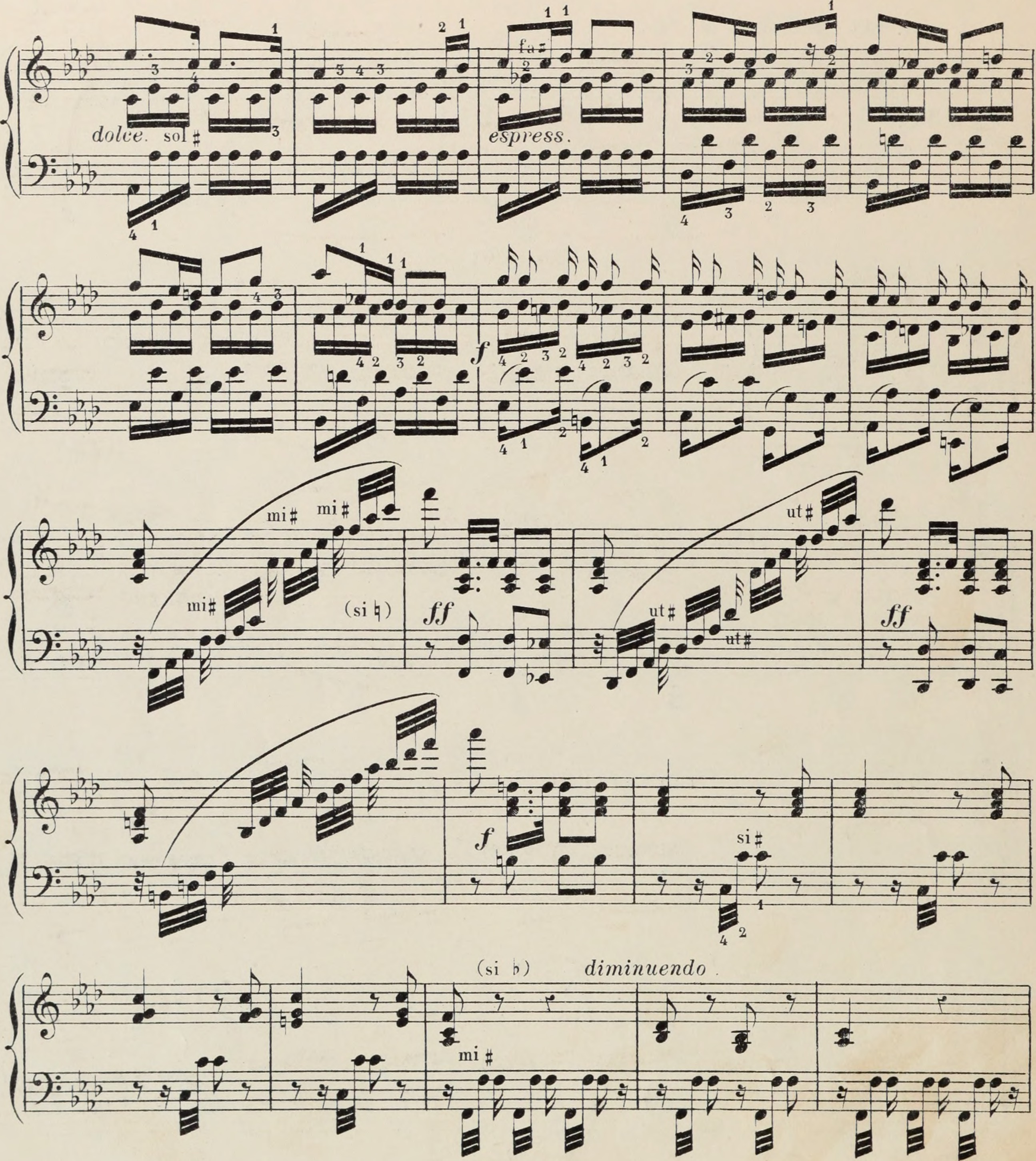 Title: 48 études pour la harpe Year: 1900 (1900s) Authors: Dizi, François-Joseph, 1780-1840 Hasselmans, Alphonse, 1845-1912 Subjects: Harp Publisher: Paris : A. Noël Text Appearing Before Image: A.O. K. 1283(1). ^8 Text Appearing After Image: :^ ft- ^^5 i ~t3 i^ ^* & a B :S r c res f Z=£ £ cen Vdo ^E£E§ # # A.O.K.. t285(l). Allegretto 3V. 13